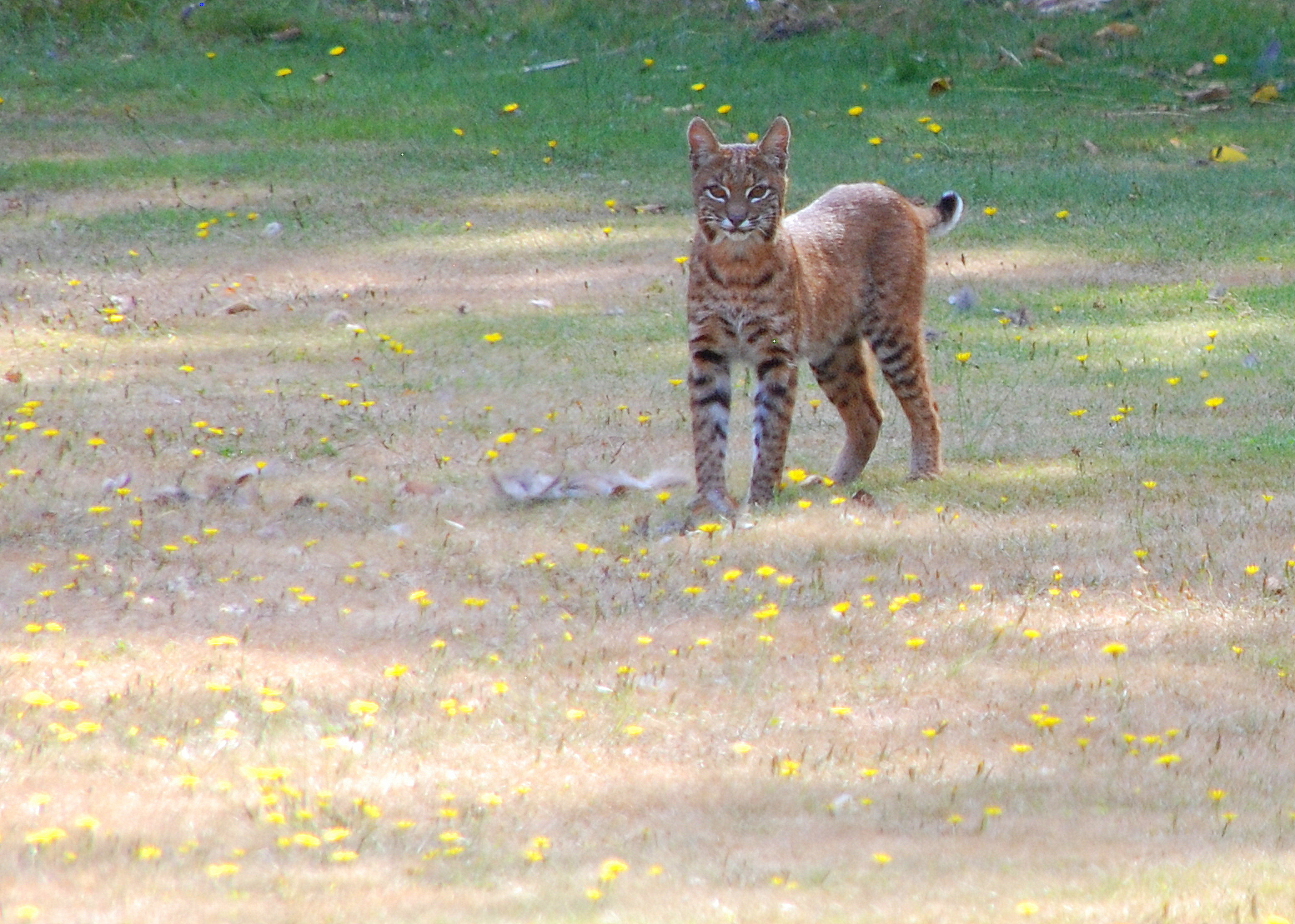 Image of Bobcat captured September 8, 2012, immediately after killing a backyard chicken (feathers visible at his feet). North Bend, Washington State, USA.